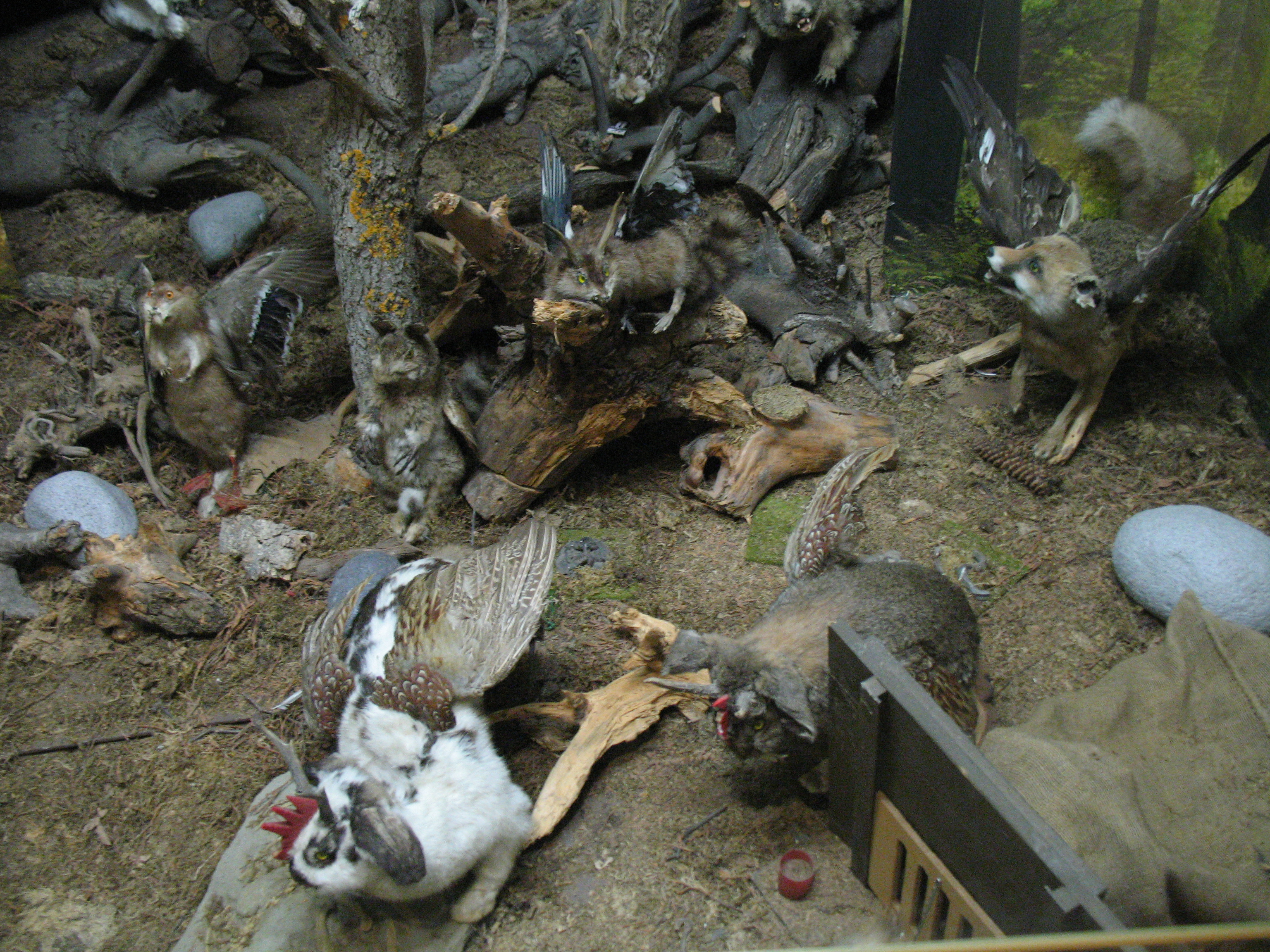 Chimeric stuffed animals in Deutsches Jagd- und Fischereimuseum (Munich)